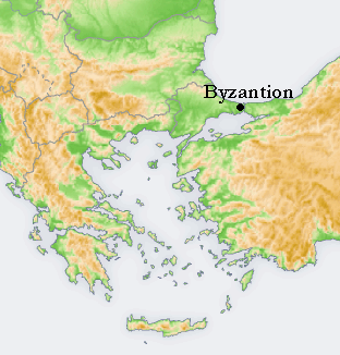 Locator map of Byzantion (Byzantium). Based on File:Europe topography map.png